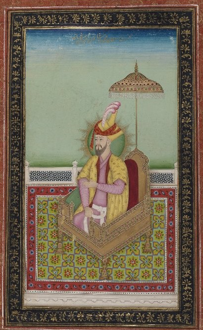 Illumination of Sultan Muhammad, son of Miran Shah in watercolor and gold on paper. Inscriptions: "Jalal al-Din Hazrat Miran Shah Jahat Qur'an Sahib" in Persian in gold at top of page from catalogue: At top of page, in Persian, in gold nastaliq script: Hazrat Sultan Muhammad Padshah ibn Miran Shah